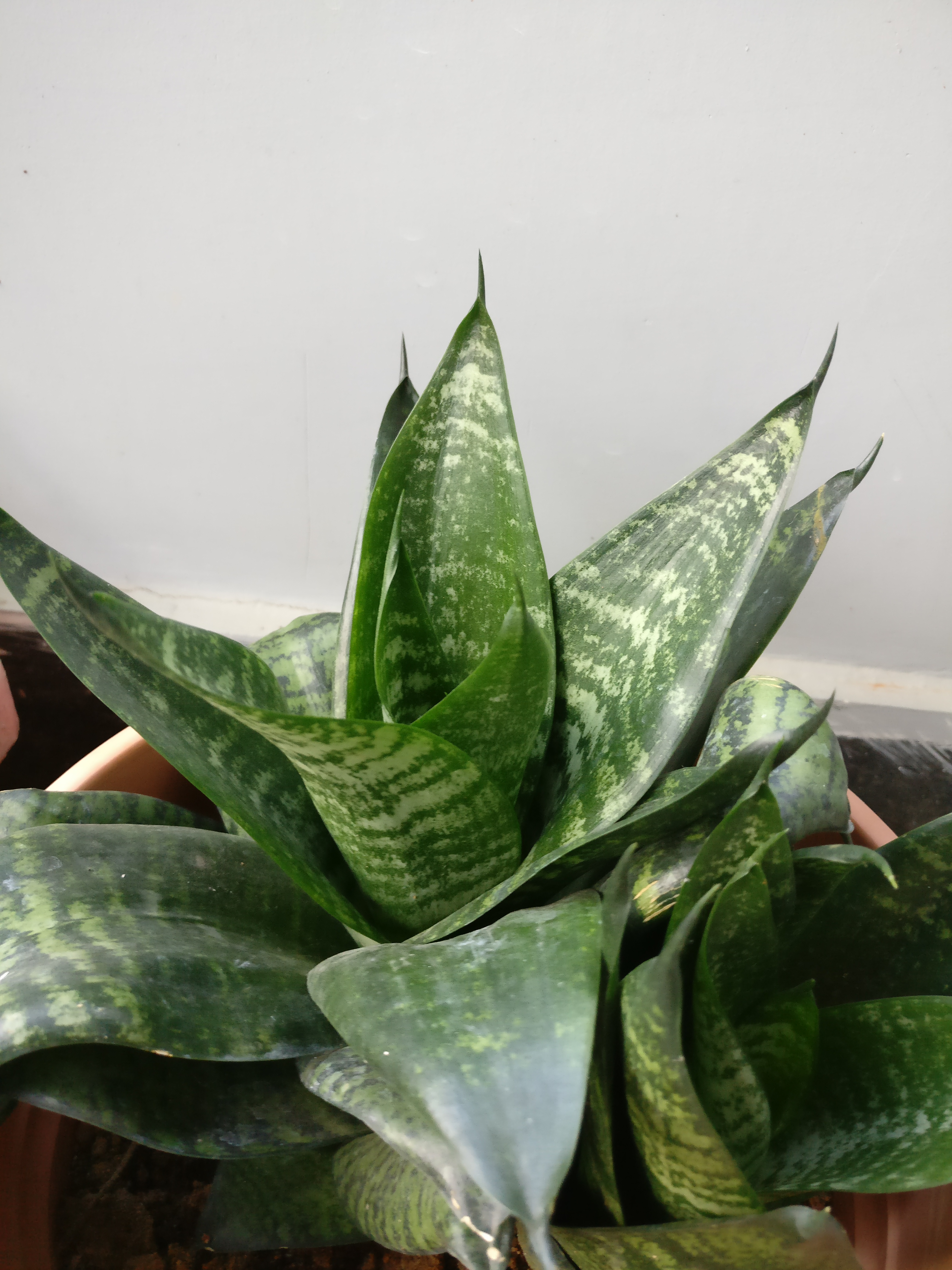 Sansevieria trifasciata is also Known As Mother In Law Tounge